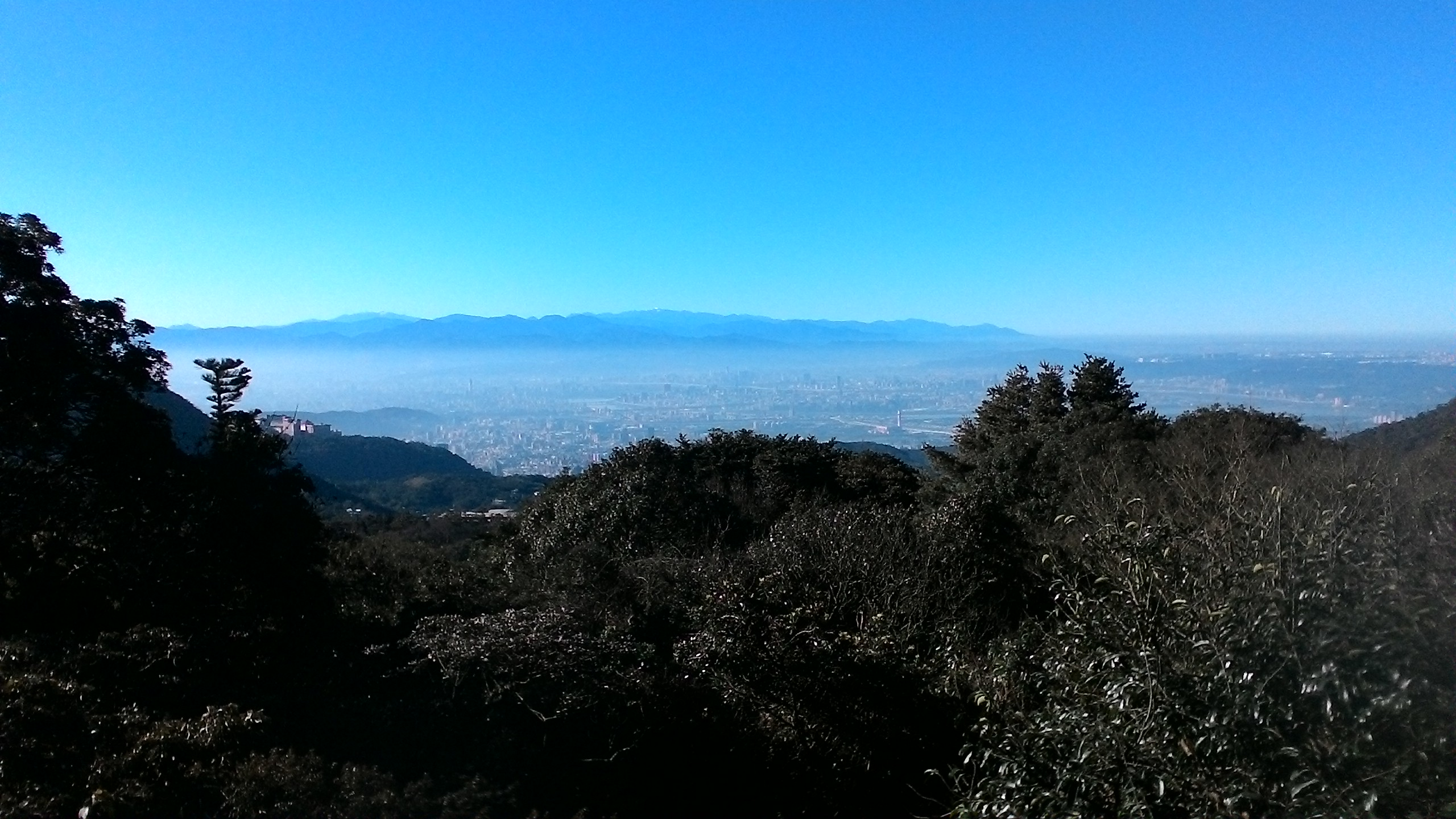 Far mountain